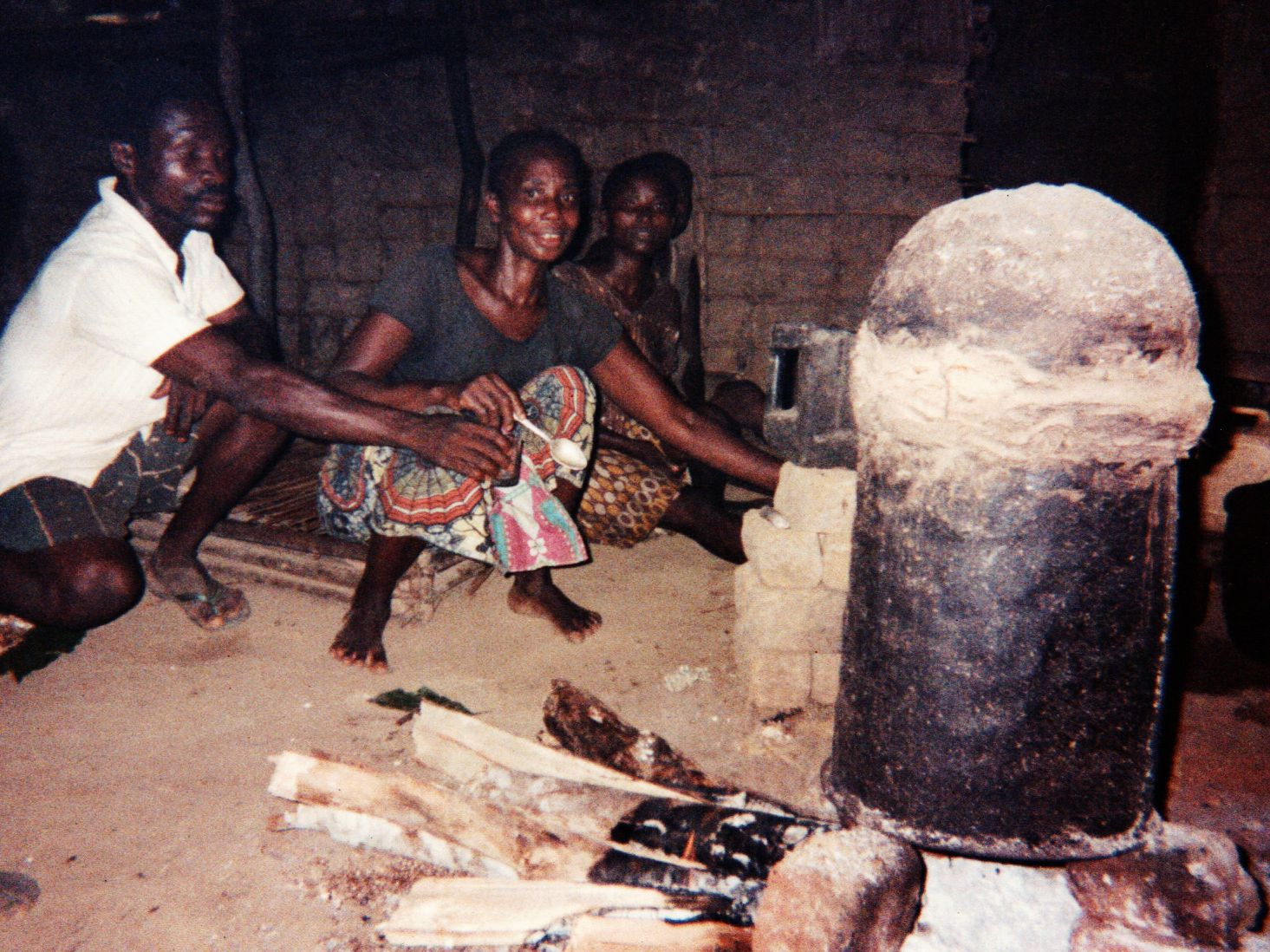 Lotoko being made from maize in a still improvised from an oildrum